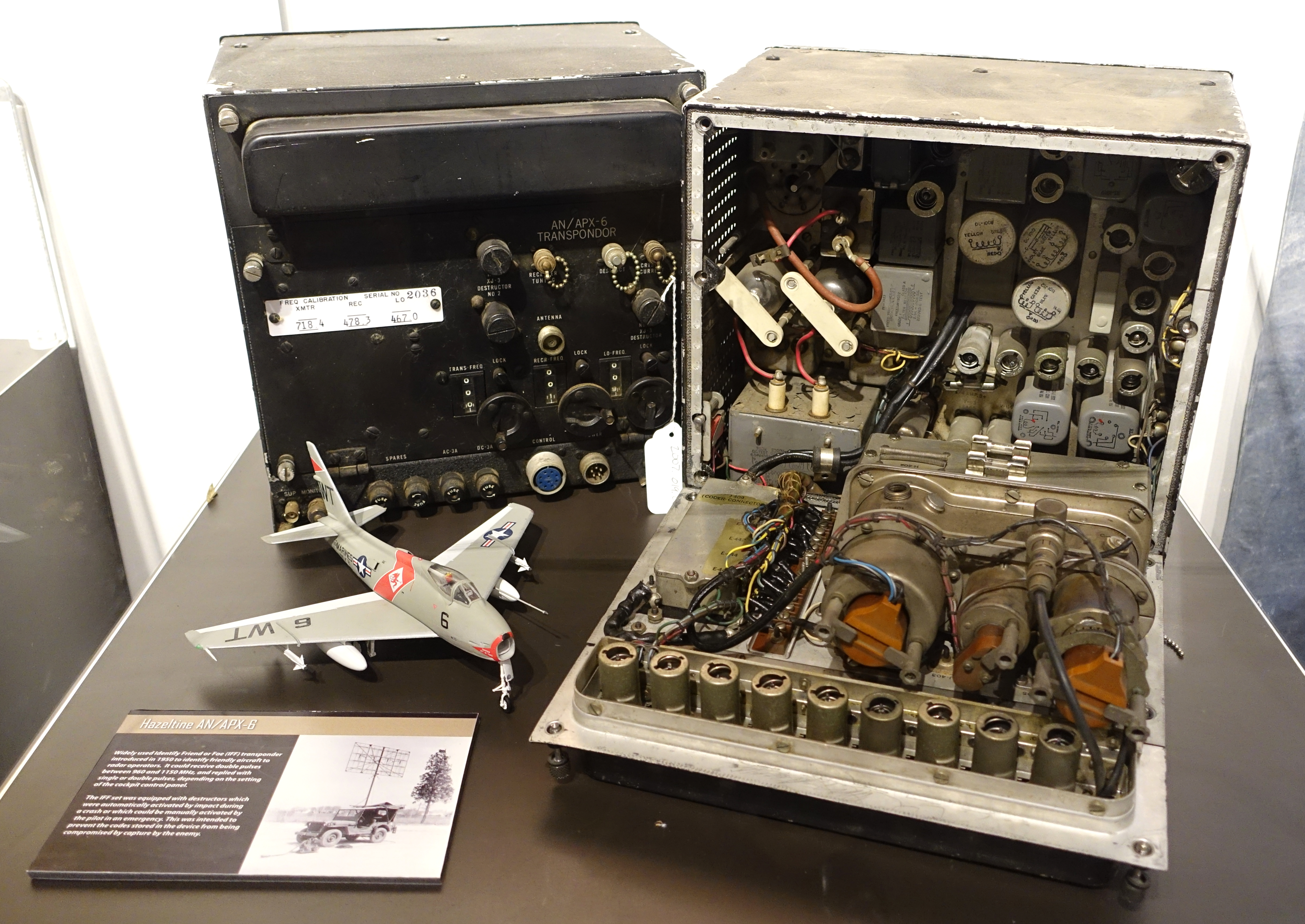 Exhibit in the National Electronics Museum, 1745 West Nursery Road, Linthicum, Maryland, USA. All items in this museum are unclassified. The museum permitted photography without restriction.